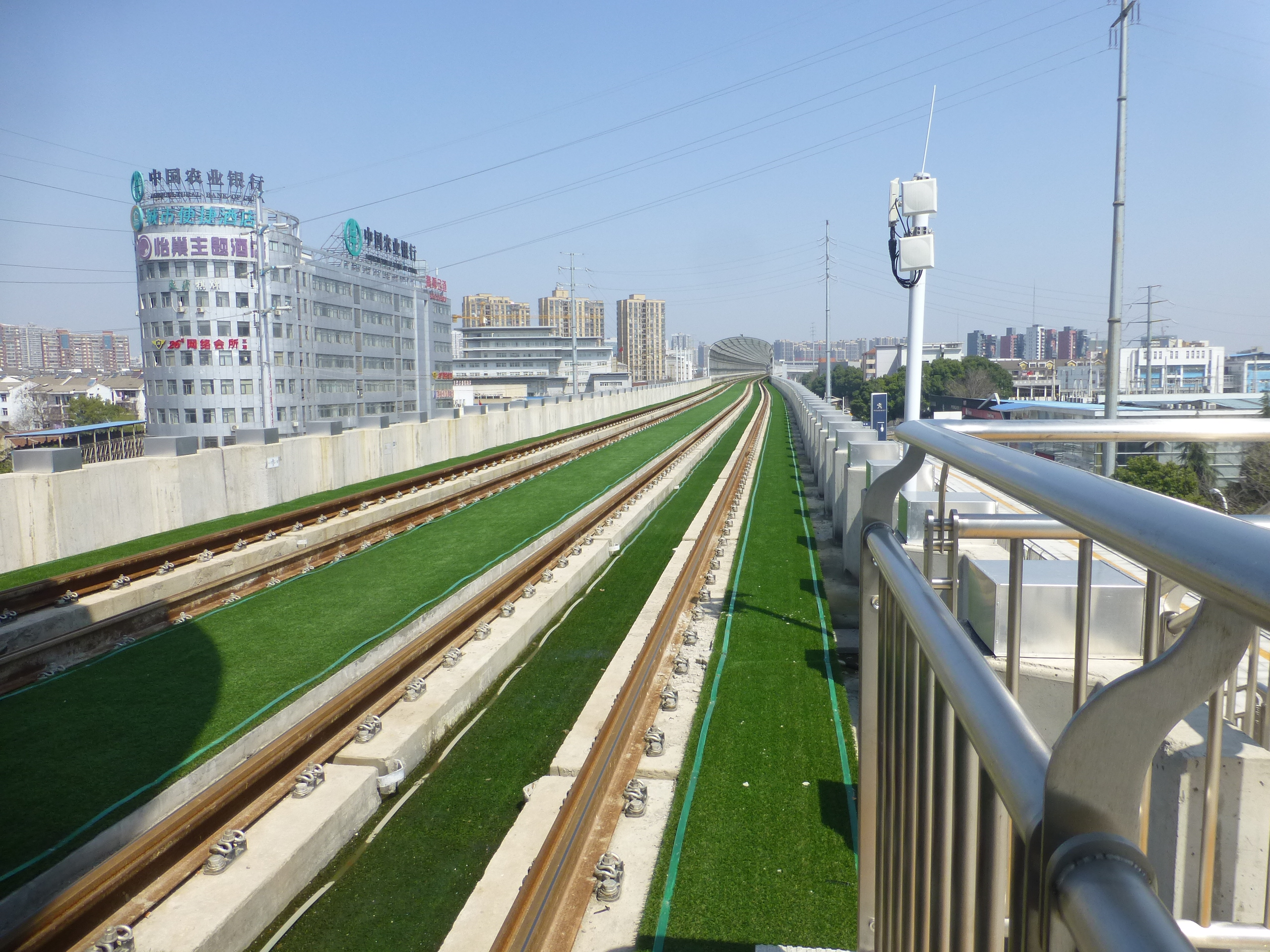 The Guanggu Streetcar Line in Wuhan, near Wudayuan Station. This is one of the few elevated stations of the system. Along most of the line, grass is planted between the rails and around the tracks; but on the elevated section, astroturf is used!